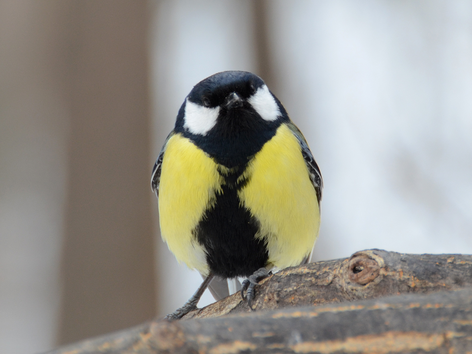 Great tit (Parus major) in a suburban forest